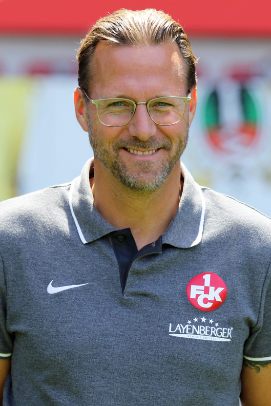 Chef-Trainer Sascha Hildmann